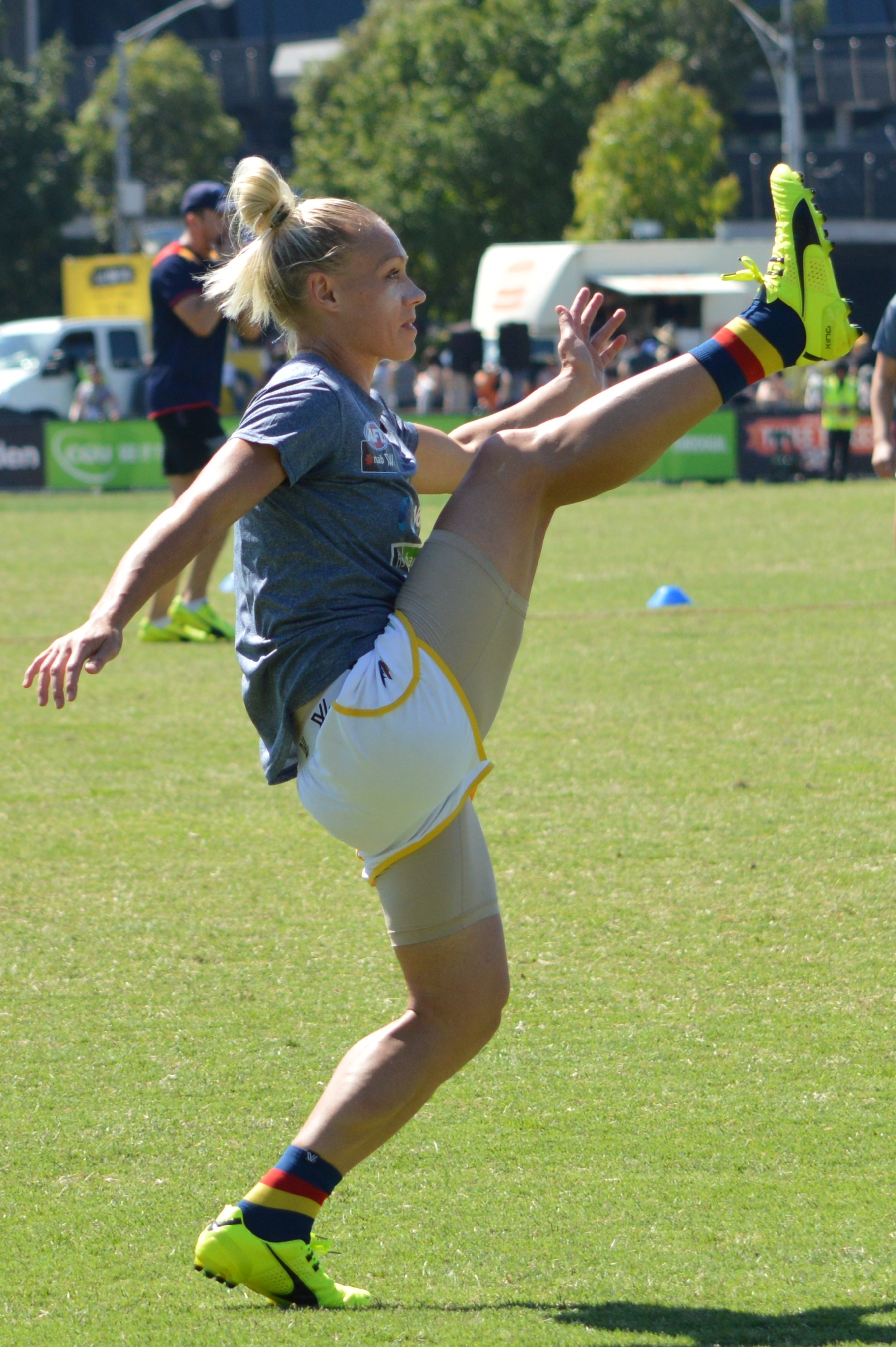 Erin Phillips during the round 7, 2017 AFL Women's match between Collingwood and Adelaide.